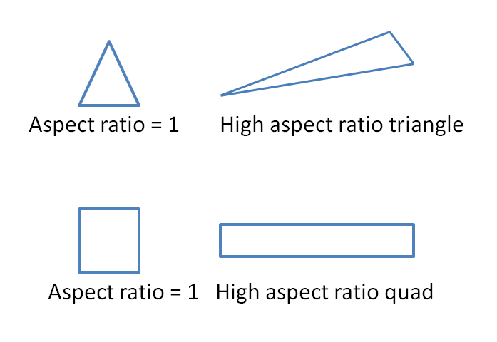 Depicts the variation in the aspect ratio of the cell.